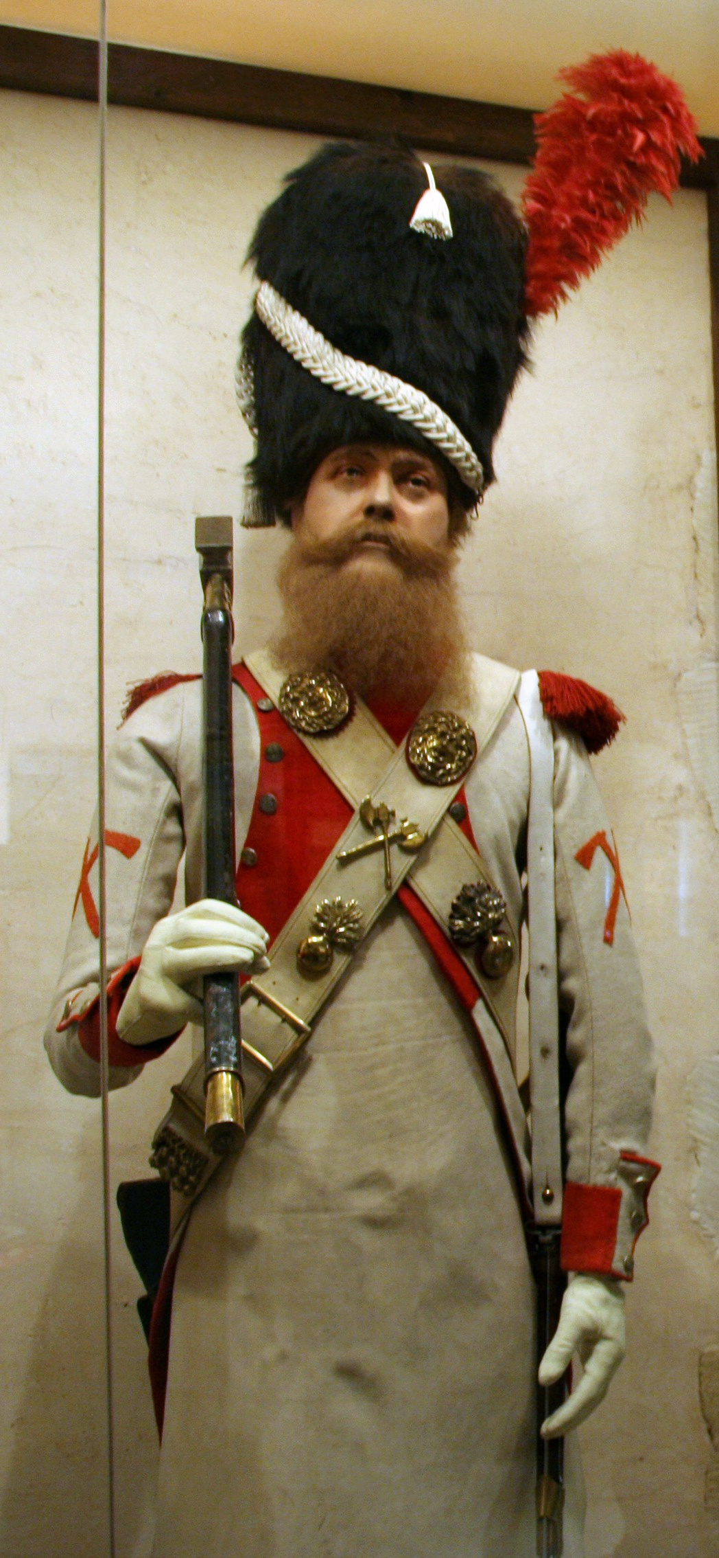 French pionneer of the 23rd Line infantry régiment in Emperi museum (Salons de Provence - France)